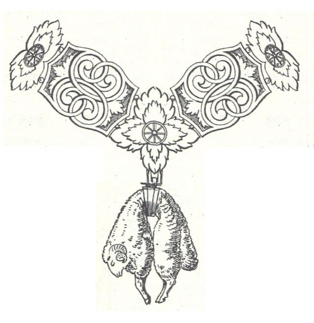 Spanish fleece